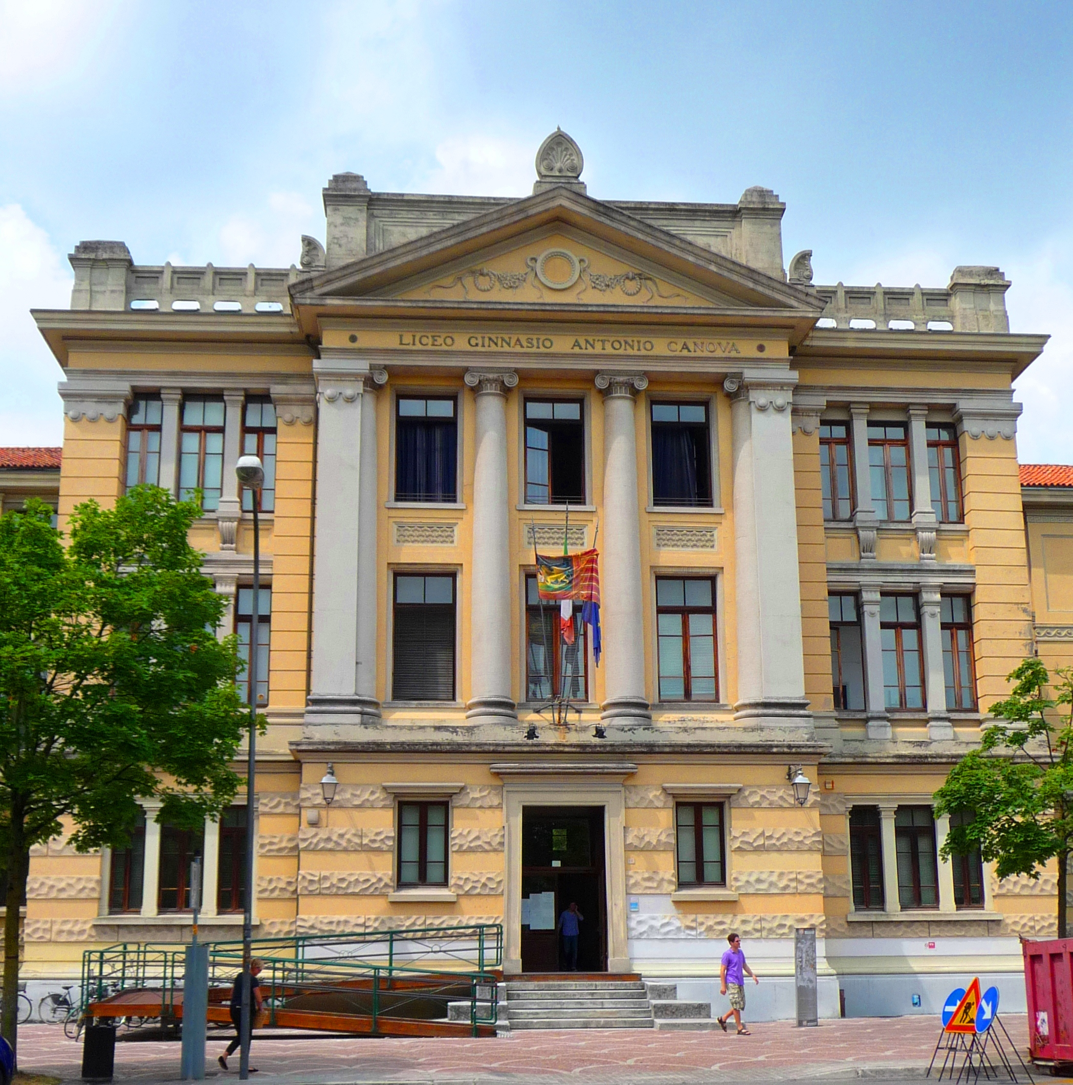 main building of the Liceo Canova in Treviso (IT)